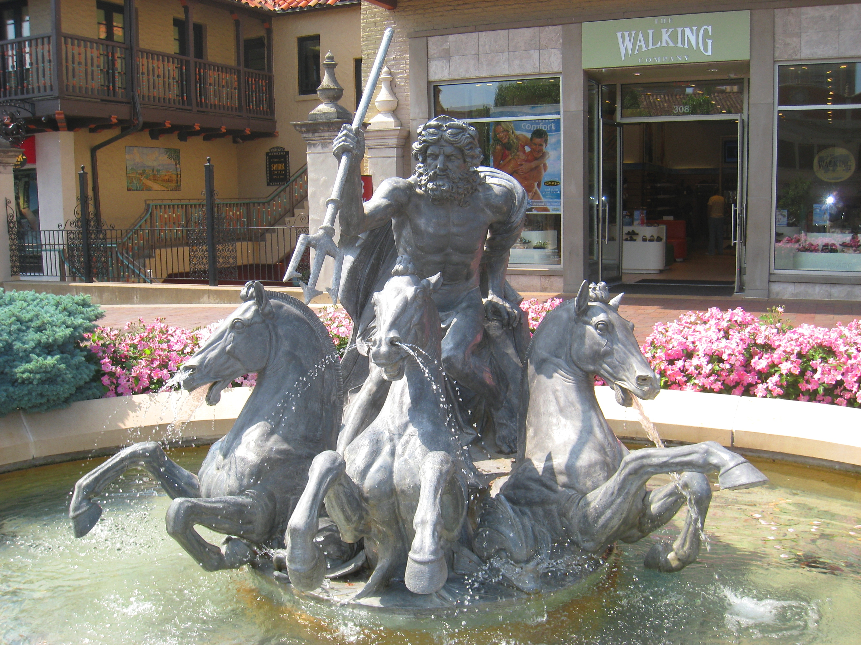 Neptune, god of the sea. This fountain is in the Country Club Plaza, Kansas City, Missouri, USA. According to a plaque on the fountain, it was cast in lead in 1911 (as described above) for Alba B. Johnson, president of the Baldwin Locomotive Company. In 1953 it was installed in the Country Club Plaza.